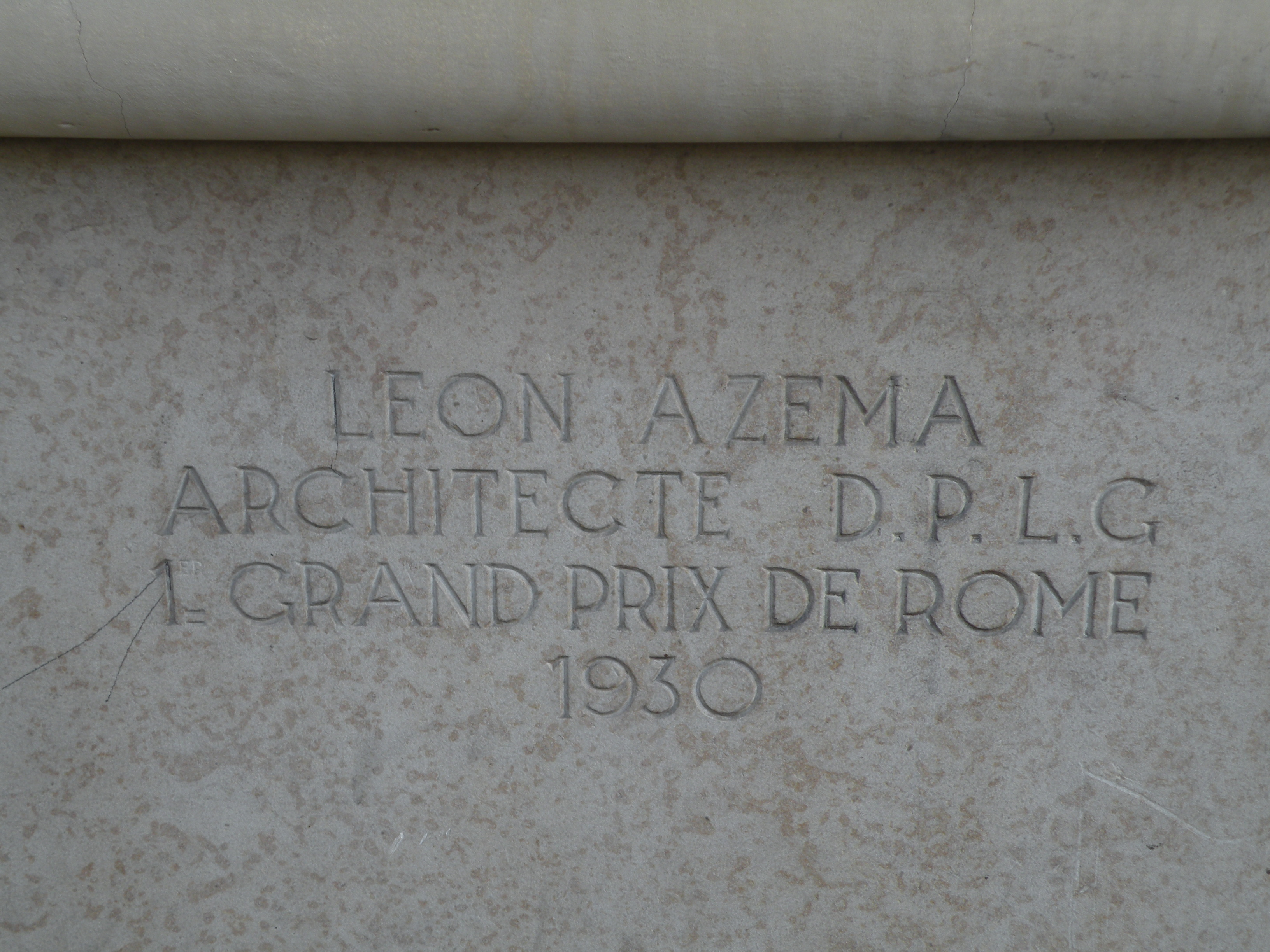 Detail of the building located 91-93 quai d'Orsay in Paris, designed by Léon Azéma (1888-1978).